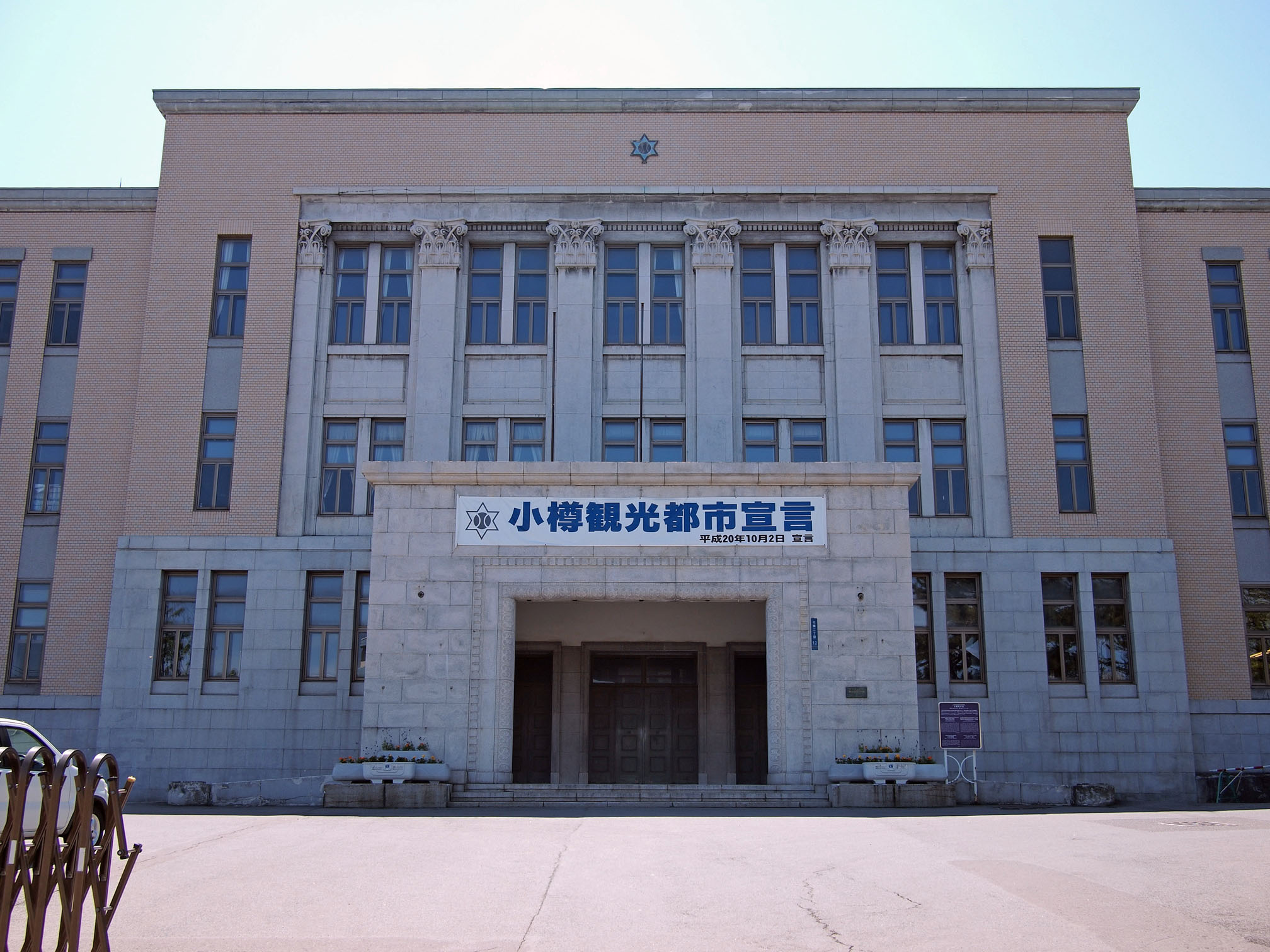 Otrau city hall, Otaru, Hokkaido, Japan